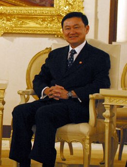 Thaksin Shinawatra, prime minister of Thailand, 2001-2006.